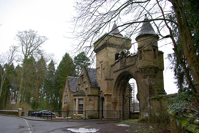 Mauldslie West Lodge - 1861 West Lodge sits at the entrance to Mauldslie Sewage Treatment Works, there is a sign just inside stating that the gates will be shut from dust till dawn. The gates along with the West Lodge and Mauldslie Bridge were built in 1861.